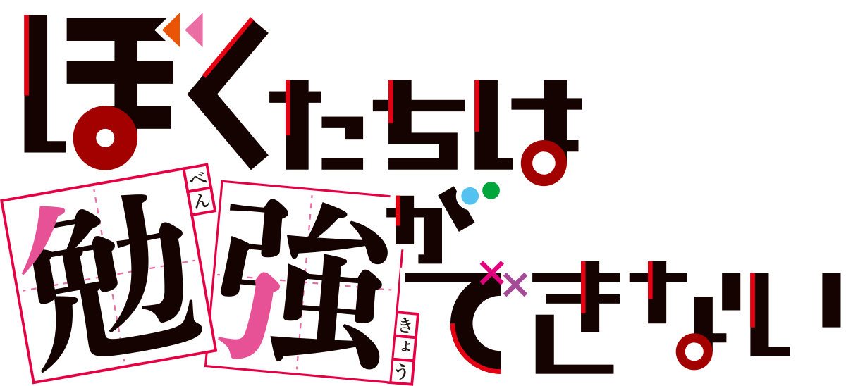 We Never Learn anime series logo